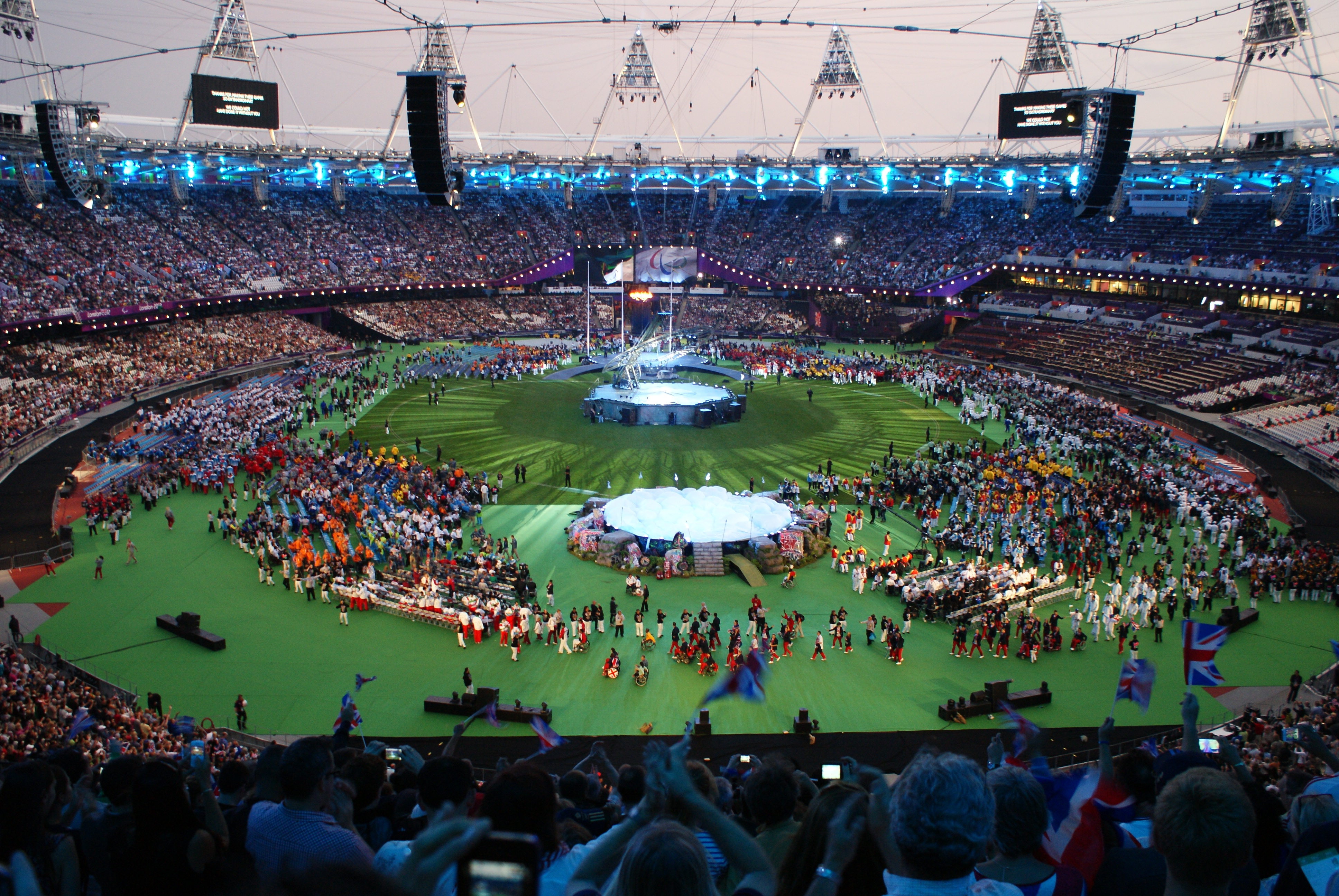 Athletes gathering in Olympic Stadium prior to the 2012 Summer Paralympics closing ceremony